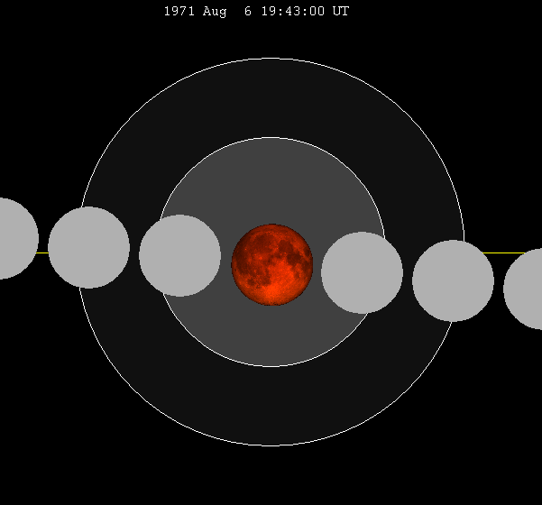 August 1971 lunar eclipse chart of moon's total lunar eclipse path through the earth's shadow. thumb